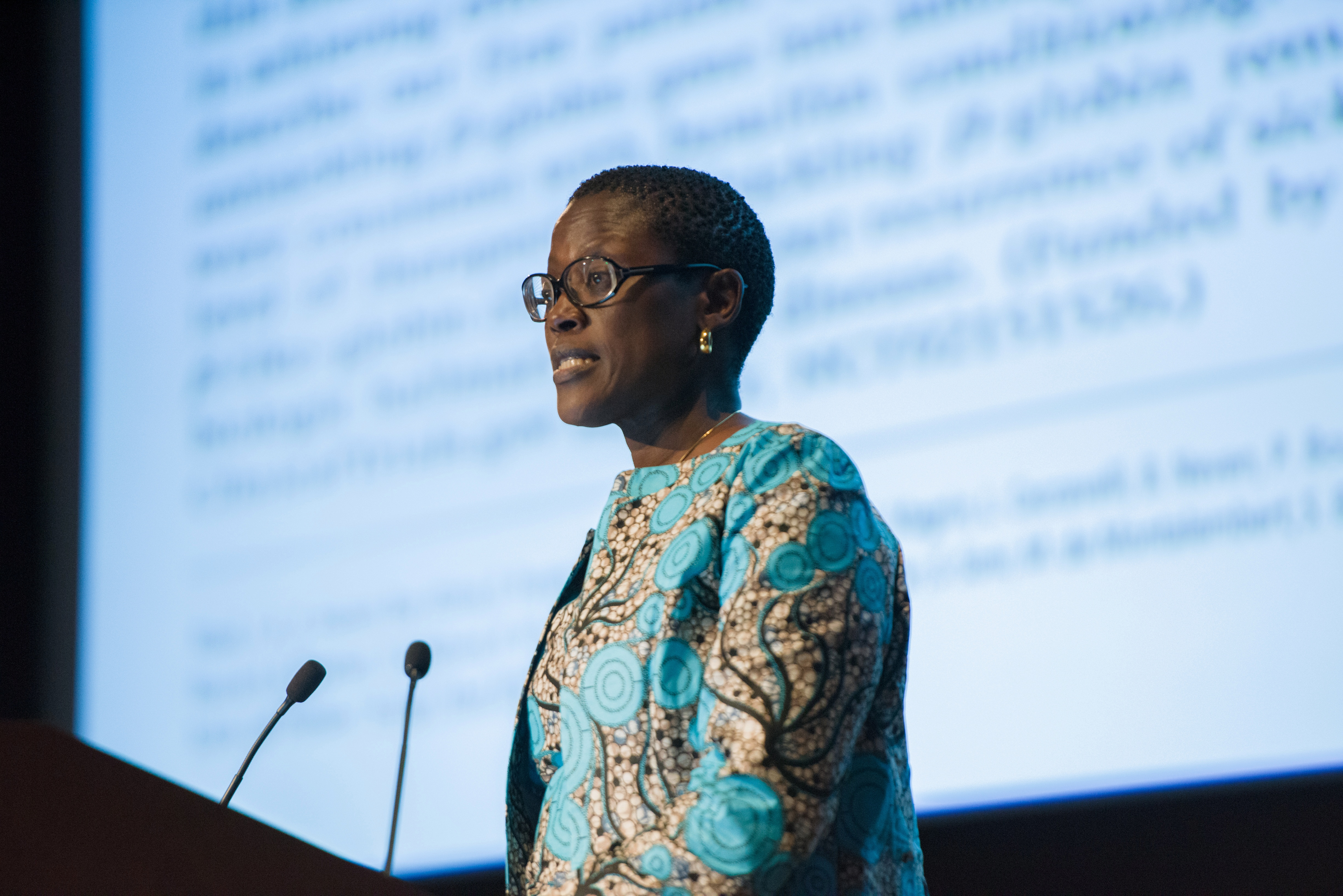 Fogarty held its 50th anniversary symposium, "What are the new frontiers in global health research?" on May 1, 2018, at NIH in Bethesda, Maryland. Dr. Julie Makani, sickle cell disease researcher at Muhimbili University in Tanzania, discussed her work and encouraged NIH to continue supporting genomics studies in Africa. Symposium agenda and recorded webcast: Credit: Andrew Propp for Fogarty/NIH